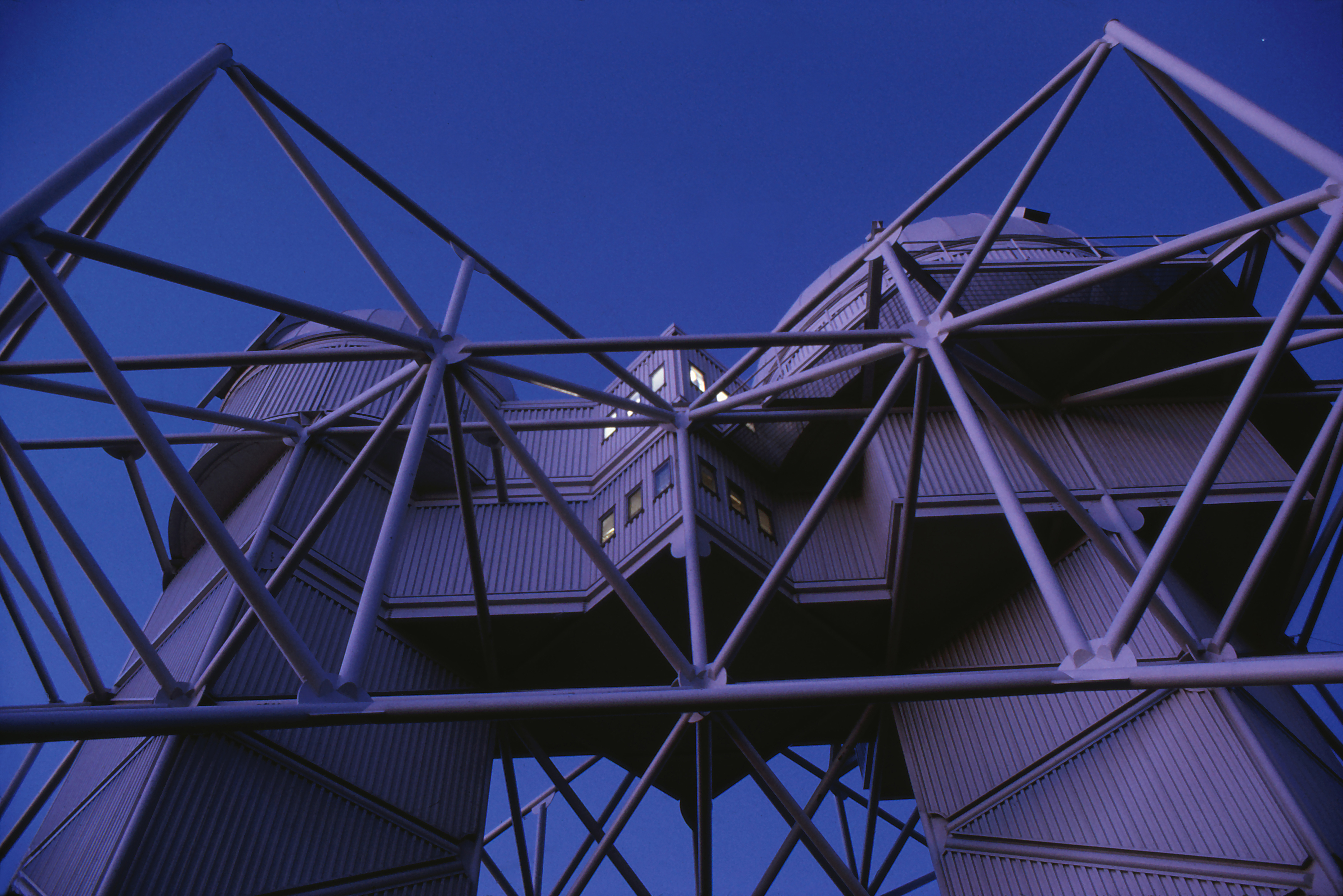 Lindheimer Astrophysical Research Center at dusk, Northwestern University, Evanston, Illinois, USA. (Digitized from a Kodachrome taken in 1974)